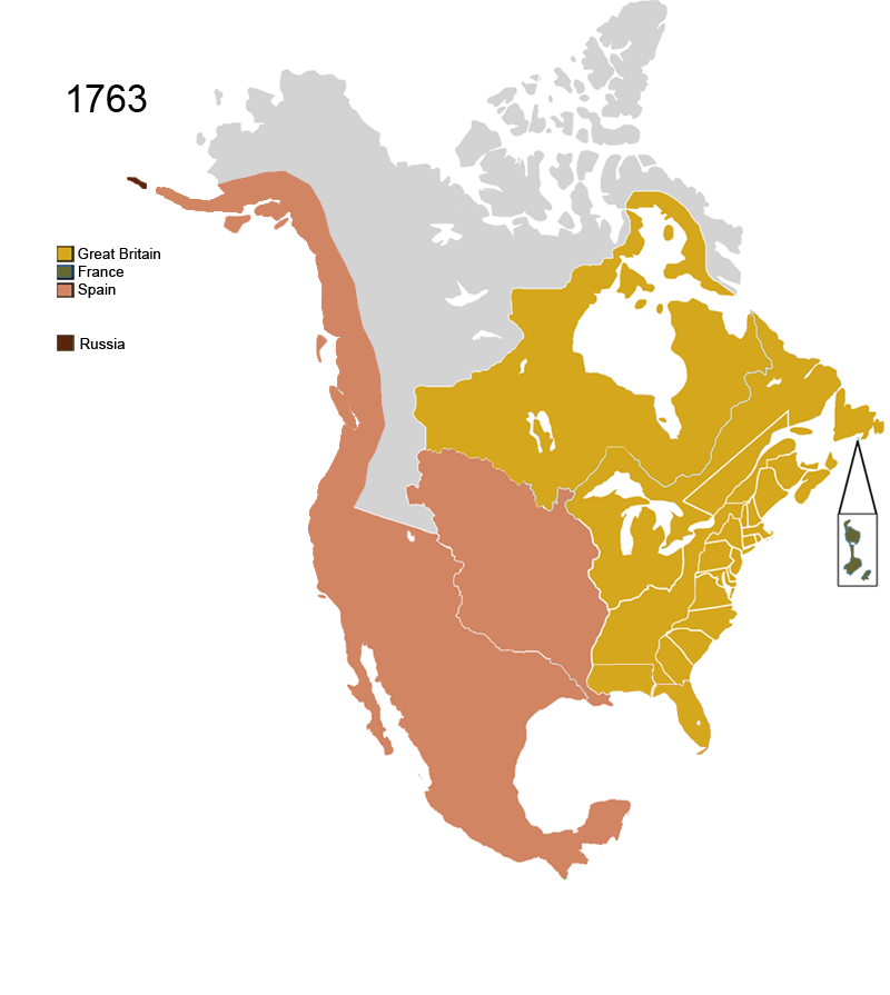 Non-Native Nations claims, not control, over countries now under the NAFTA Treaty